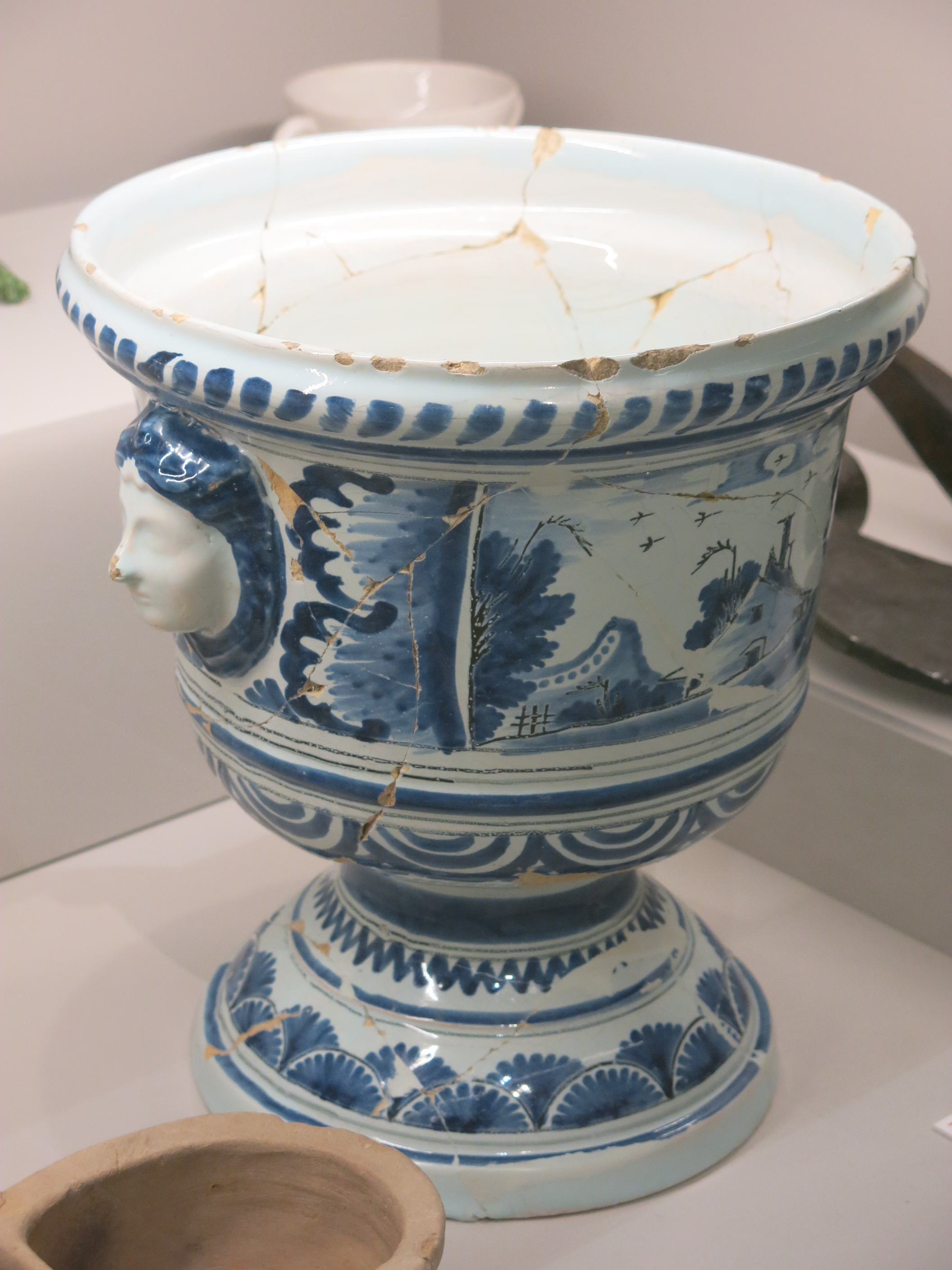 Cachepot. 1650-1700. Nevers faience. Found during the excavations of the Louvre castle for the creation of the Pyramid and exhibited in the medieval Louvre (Paris, France).